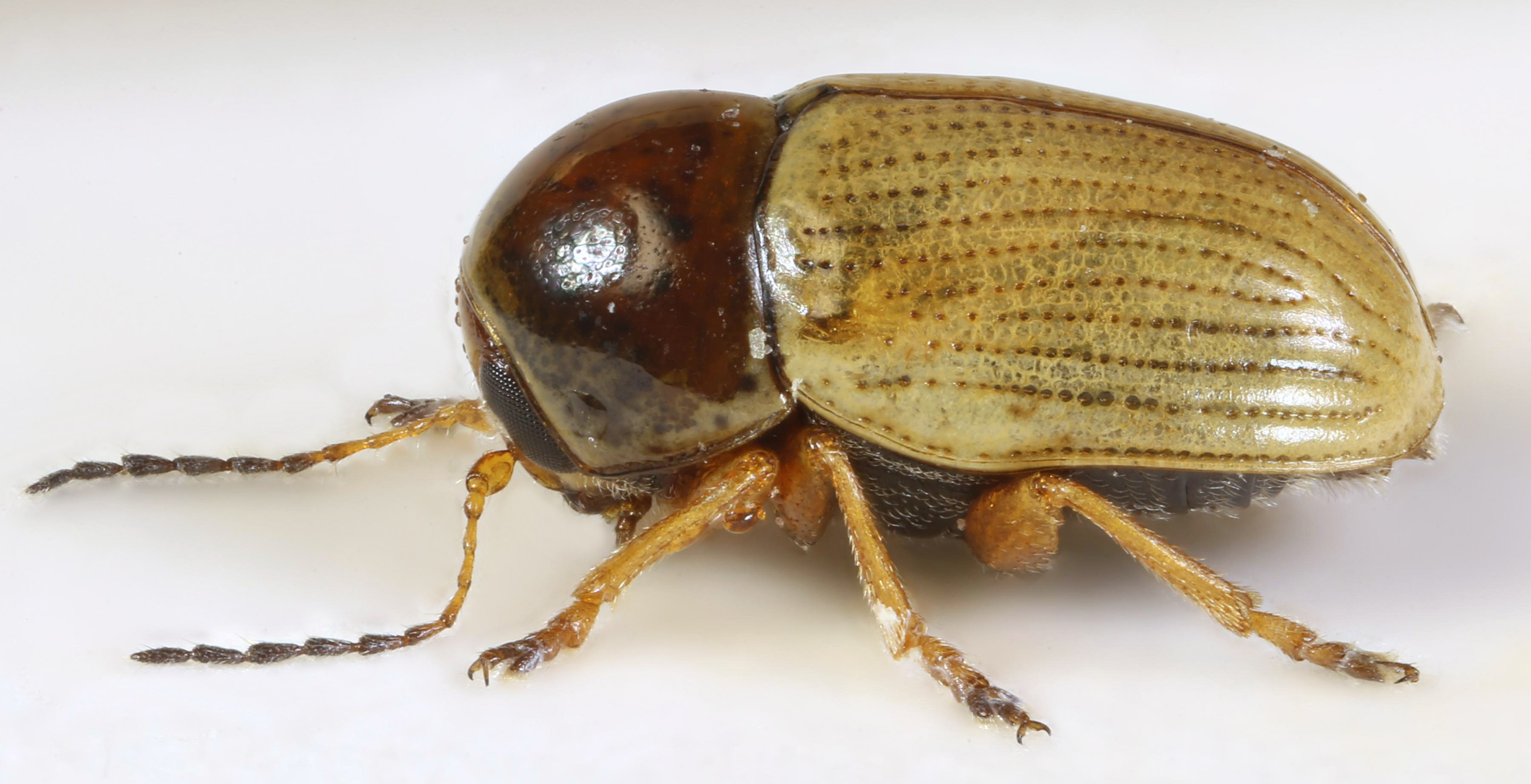 Cryptocephalus fulvus, Bagillt, North Wales, July 2016 2